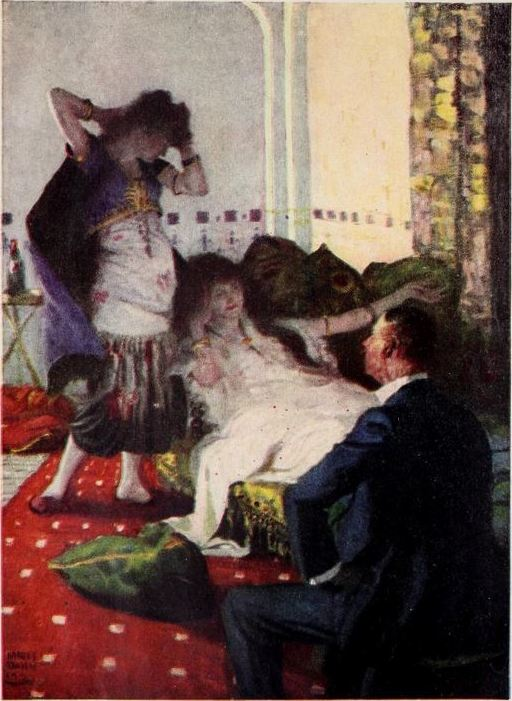 Painting by Harvey Dunn to illustrate the serialized novel "Command" by William McFee, on the front piece facing page 1 of the June 1922 Harper's Magazine. It has the caption "This place stifles me. I hate it."